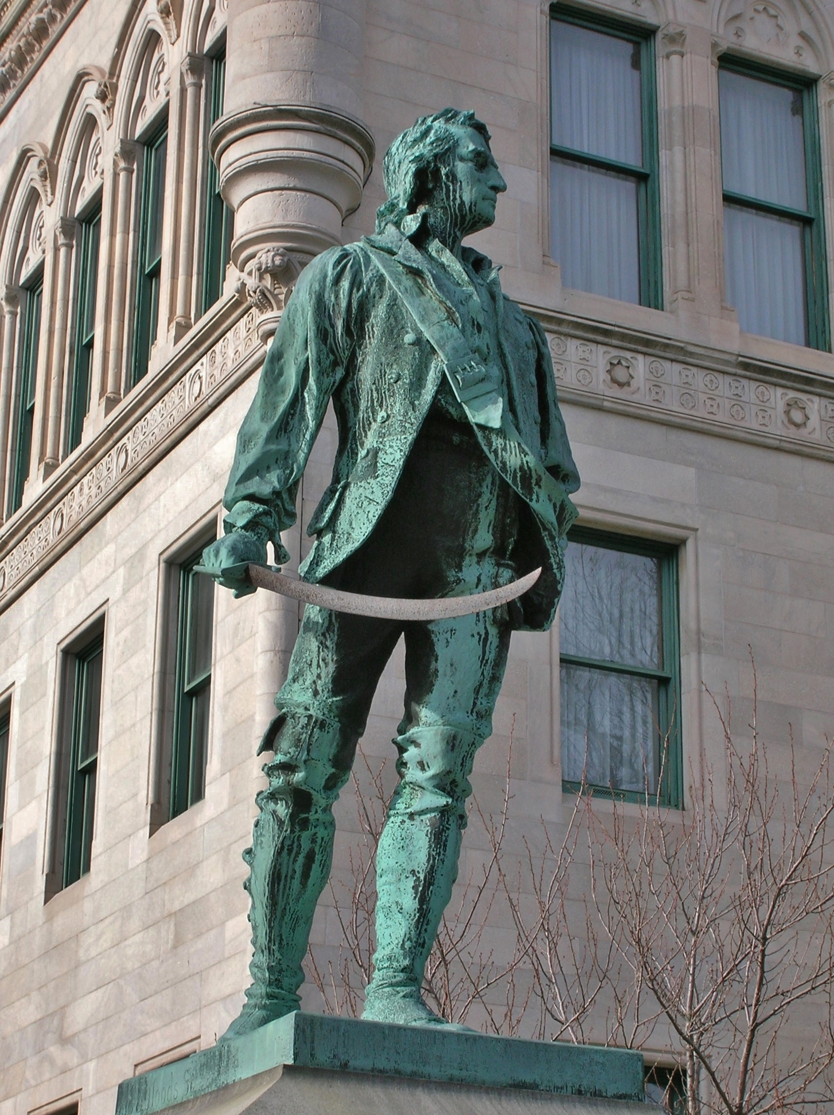 Statute of Thomas Knowlton, sculpted by Enoch Smith Woods, located on the grounds of the Connecticut State Capitol in Hartford, CT. Dedicated November 13, 1895. Photo taken 1-19-2016.